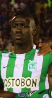 Davinson Sánchez Mina (born 12 June 1996) is a Colombian professional footballer who plays as a centre back for Premier League club Tottenham Hotspur and for the Colombian national team.